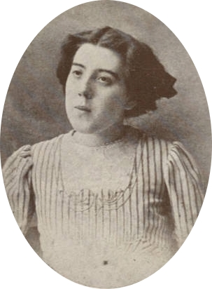 Emília Miret i Soler, in Feminal magazine of 28.11.1909